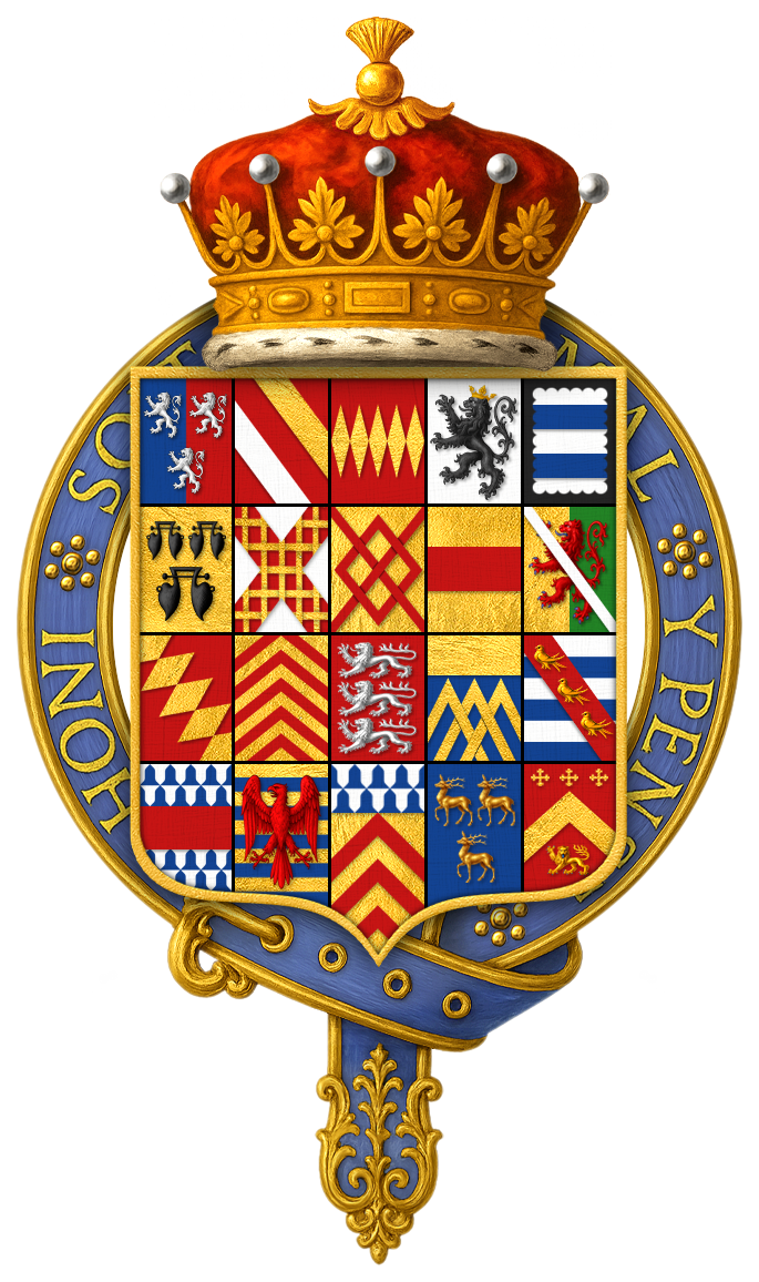 Coat of arms Sir William Herbert, 3rd Earl of Pembroke, KG. Quarterly of six: 1: Per pale azure and gules, three lions rampant argent a bordure componée gules bezantée and or (Herbert, with a bordure as difference for illegitimacy of Sir Richard Herbert of Ewyas (d.1510), father of the 1st Earl.)